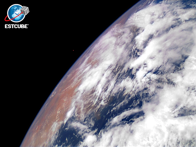 This is the first photo taken by Estonian nanosatellite ESTCube-1. The photo was taken on May 15, 2013 above Croatia. Mediterranean Sea, Africa, Sahara Desert, Tunisia are visible on the image.